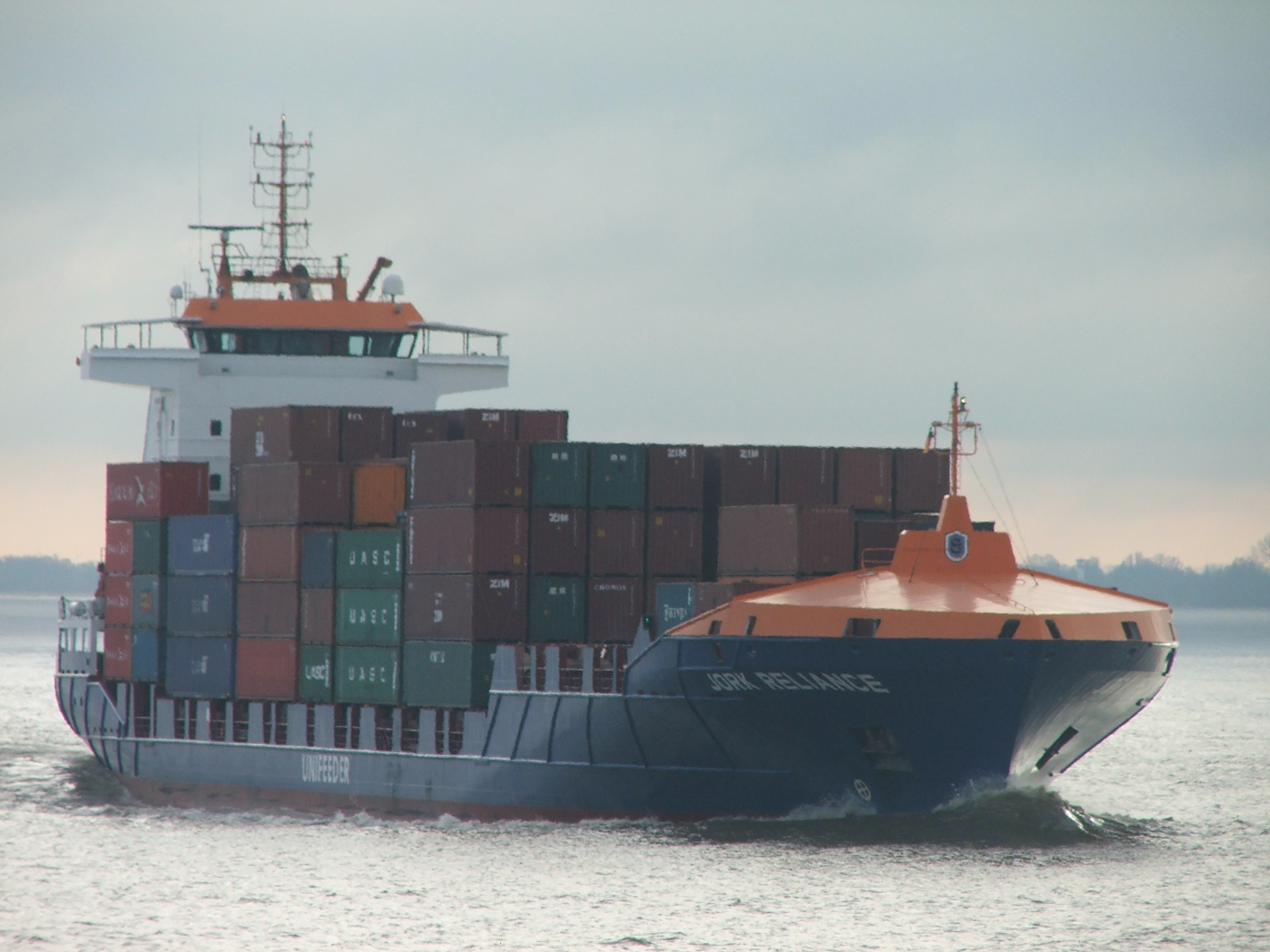 Feeder vessel "Jork Reliance" outbound river Elbe